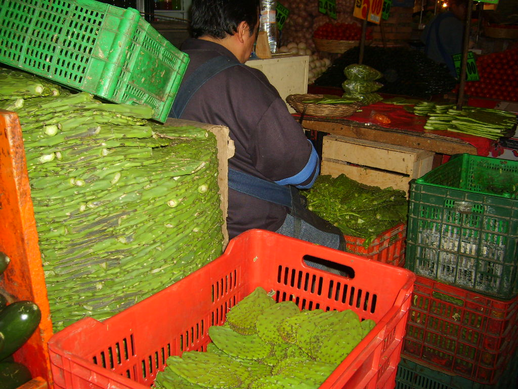 Nopal cacti in the Merced (a market of Mexico city)